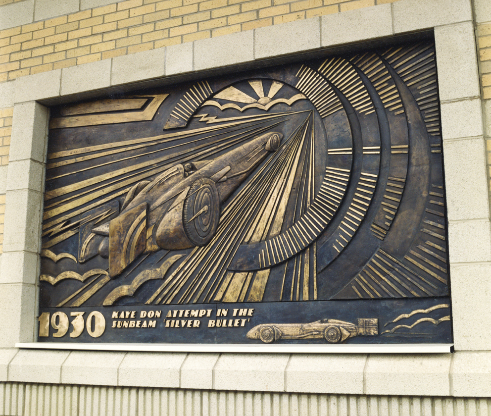 Bronze sculpture relief panel sculpted by John McKenna from a design collaboration with artist Steve Field, Dudley Borough Public art unit. Sculpture depicts the 1930 Sunbeam land speed record attempt by Kaye Don in the 'Silver Bullet'. Bronze casting 3m by 2m, sited at St. John's Retail Park, Wolverhampton.